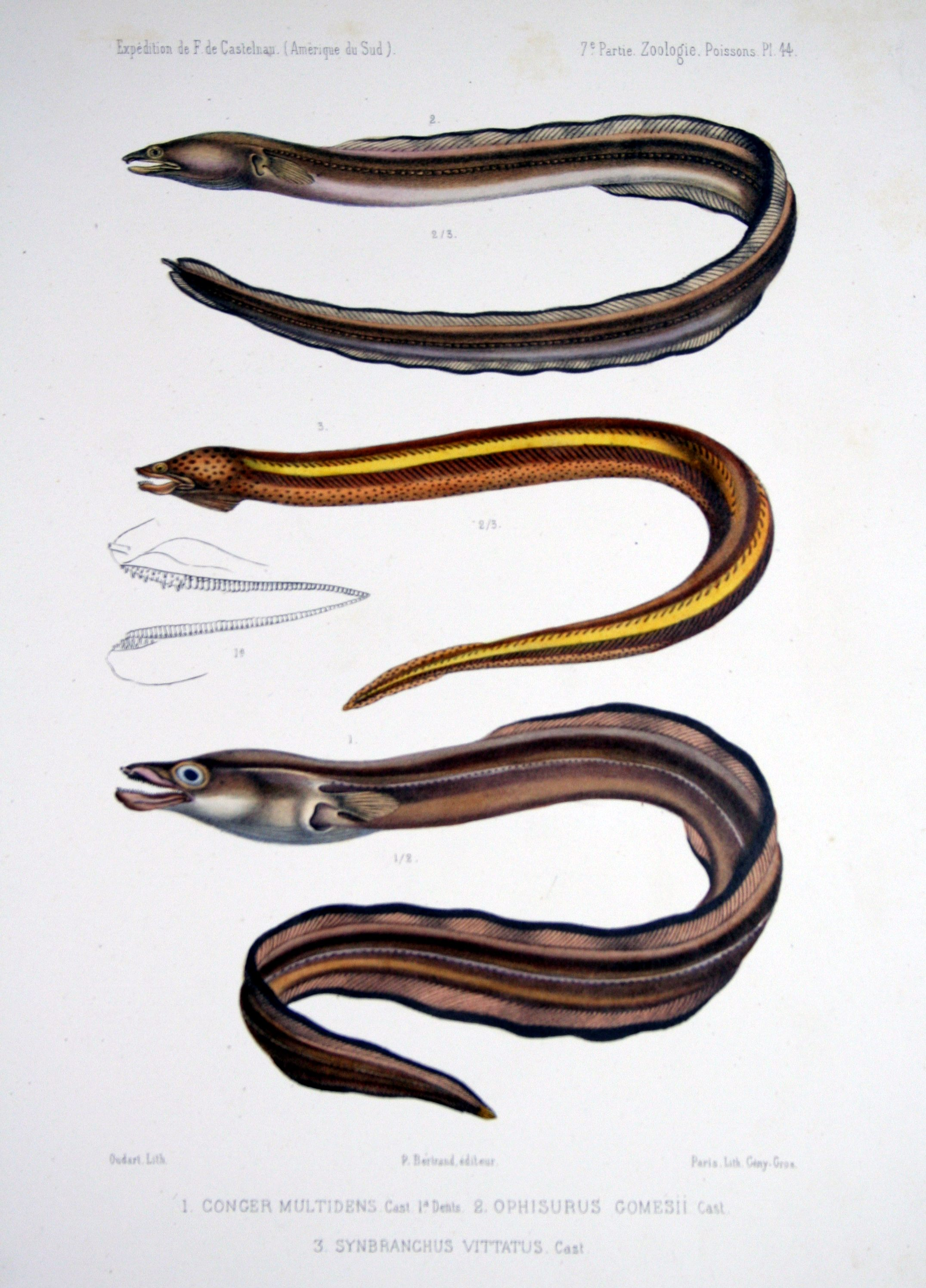 From top to bottom: Ophisurus gomesii = Ophichthus gomesii Synbranchus vittatus = Synbranchus marmoratus Conger multidens = Conger orbignianus (1a: mouth)